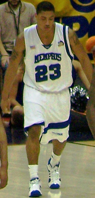 Derrick Rose in the 2008 Final Four game against UCLA.